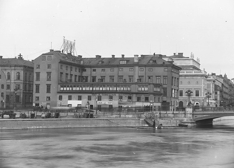 FOTOGRAFIRödbodtorget från järnvägsbron. Norrström i förgrunden. 1896-1896FOTOGRAF: Okänd.BILDNUMMER: C 1511Stadsmuseet i Stockholm